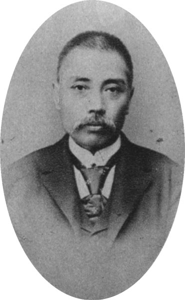 Shinrokurō Itō.